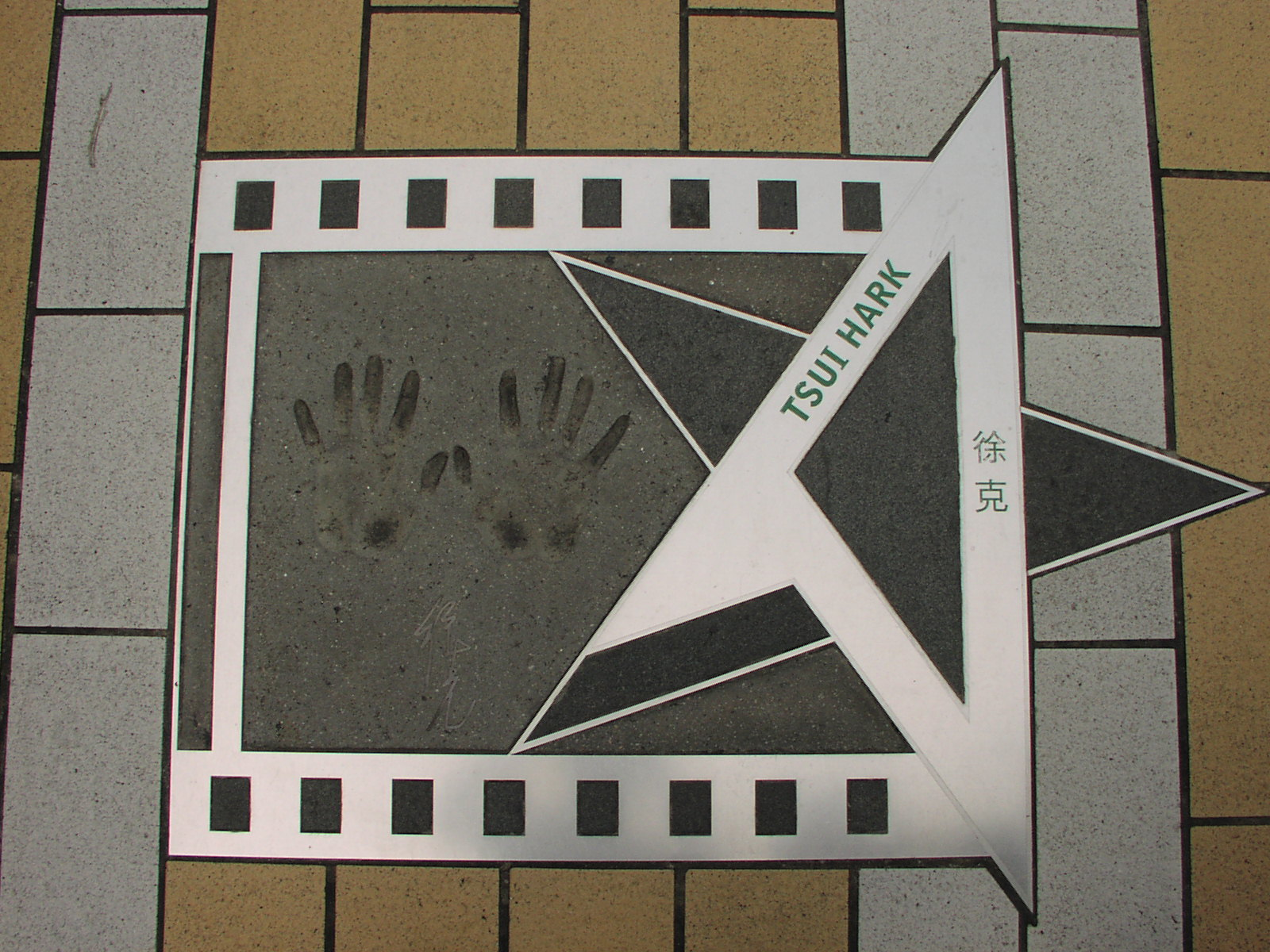 Avenue of Stars, Hong Kong